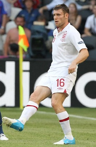 UEFA Euro 2012 match between France and England played in Donetsk at Donbas Arena. Final result was 1:1 (Nasri, Lescott).